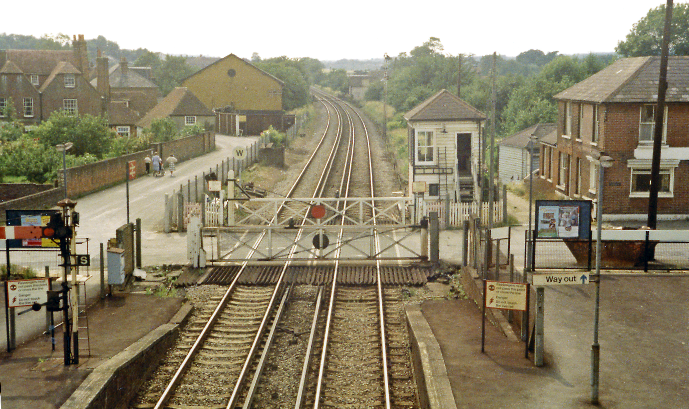 Chartham station. View westward, towards Ashford: ex-SER (later SE&CR) Ashford - Canterbury - Ramsgate line, electrified in 1961.